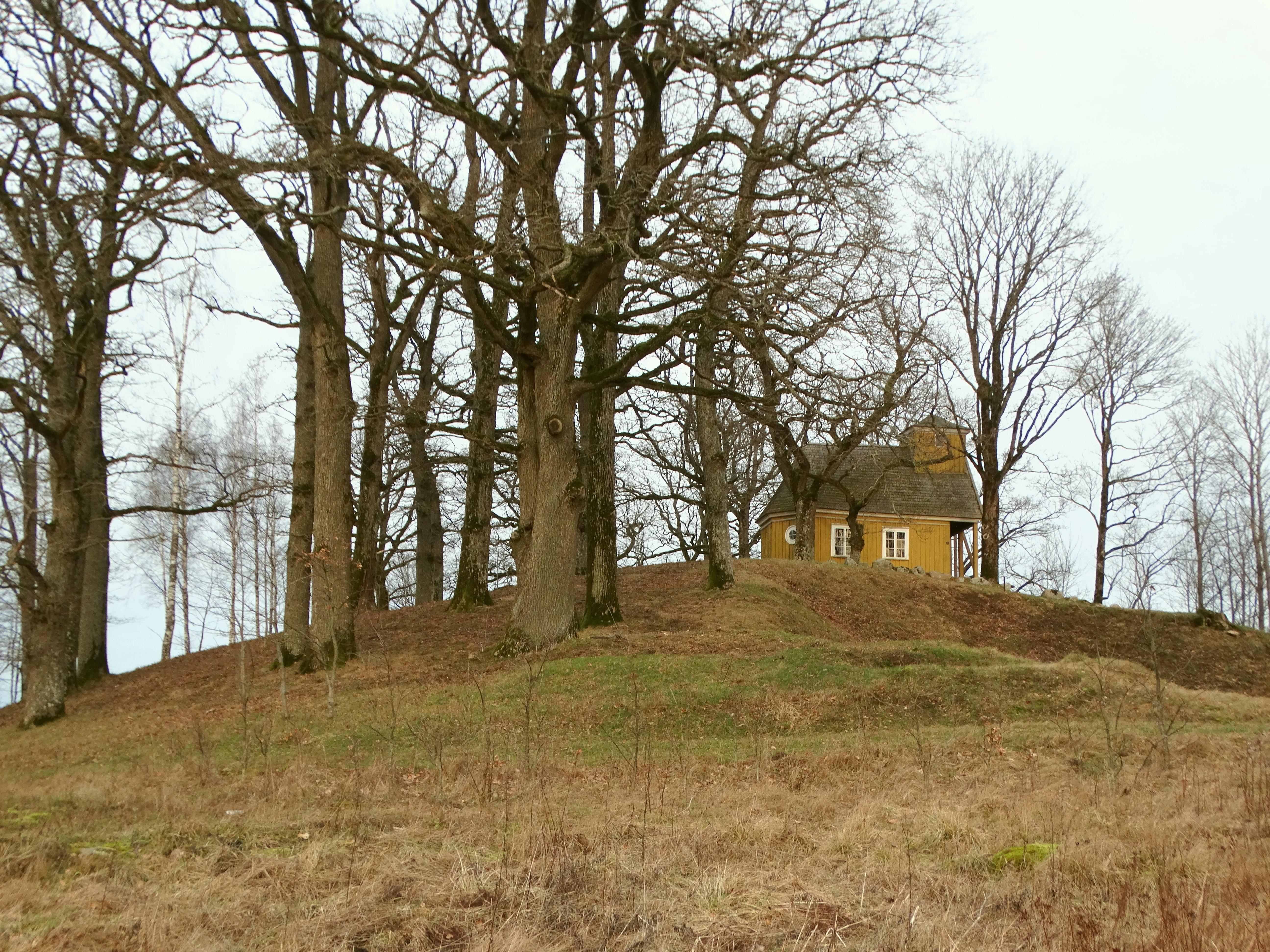 Sacred hill and chapel in Vydeikiai, Plungė district, Lithuania